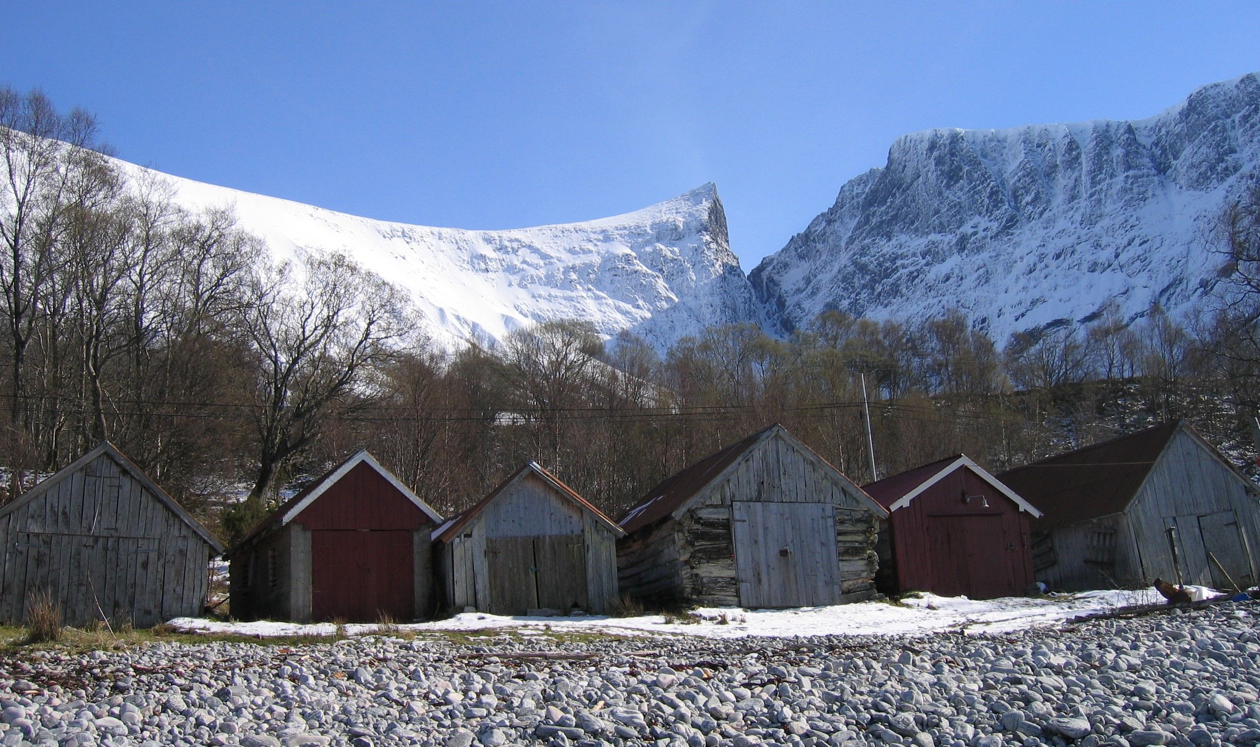 a row of old boathouses in Norway